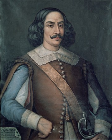 Admiral Miguel de Oquendo a 16th century Spanish naval officier.